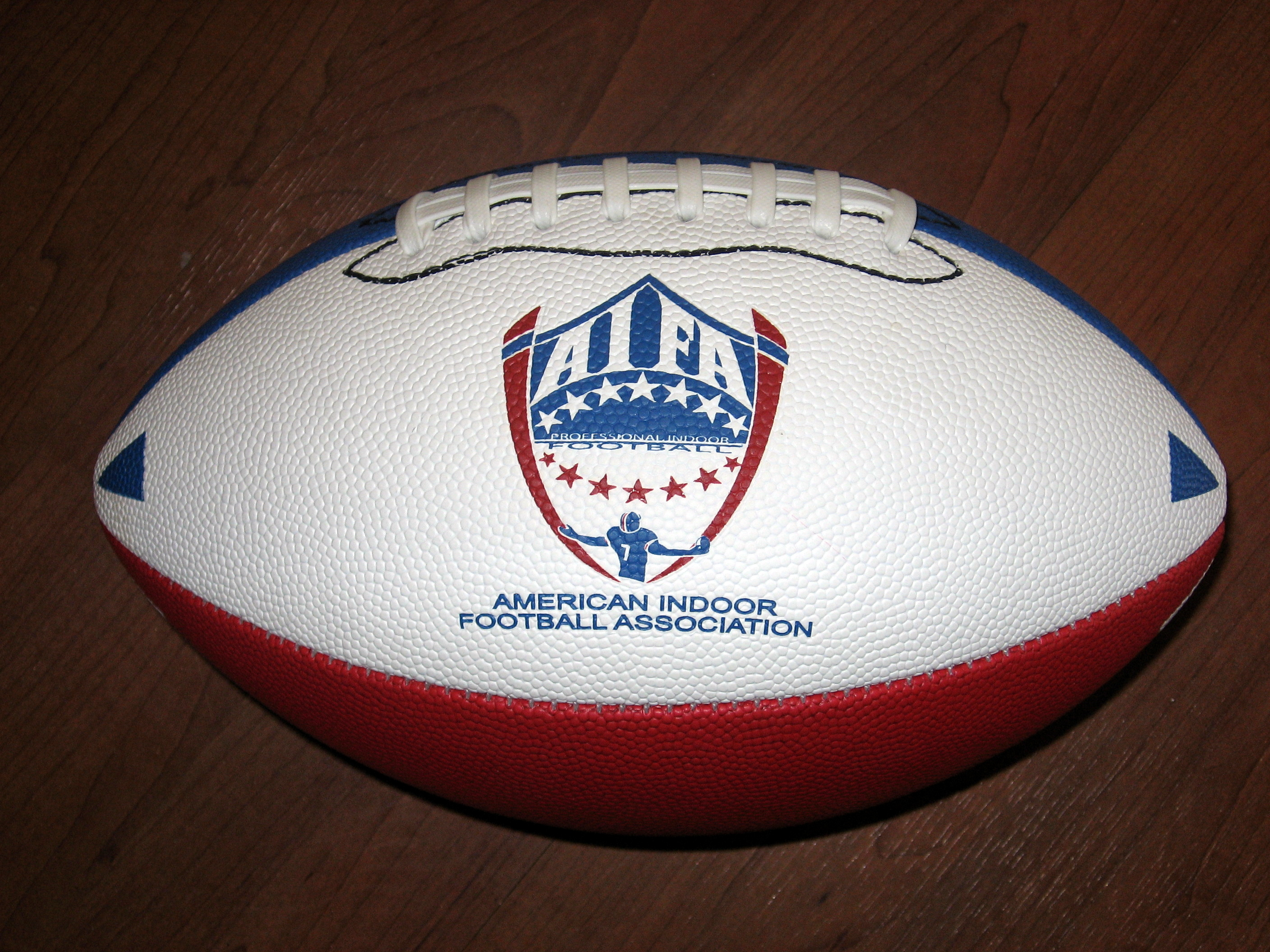 I caught this ball at the Canton-Erie game on February 9, 2007. Picture taken February 12, 2007 in my living room.